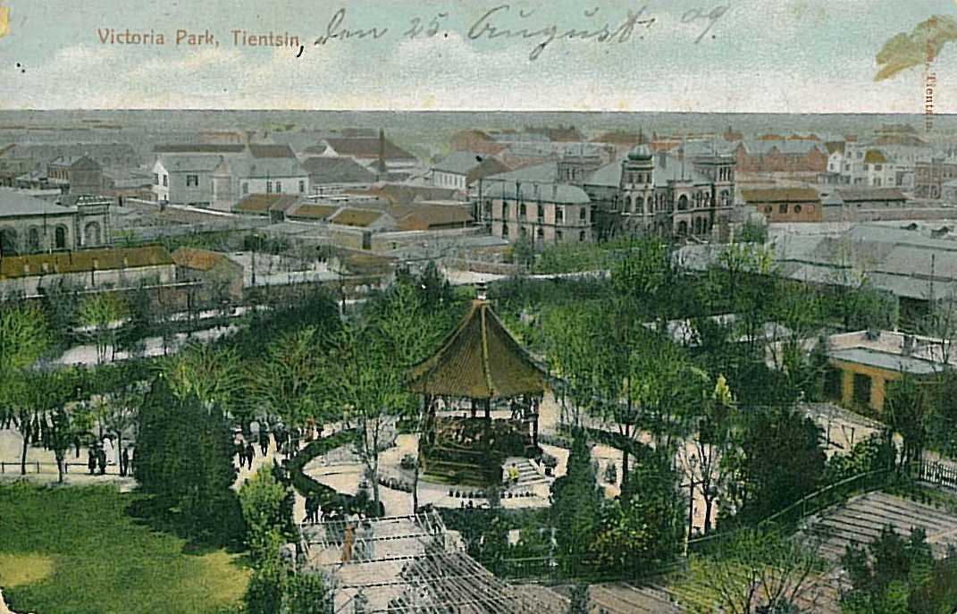 Victoria Park, Tientsin, China.